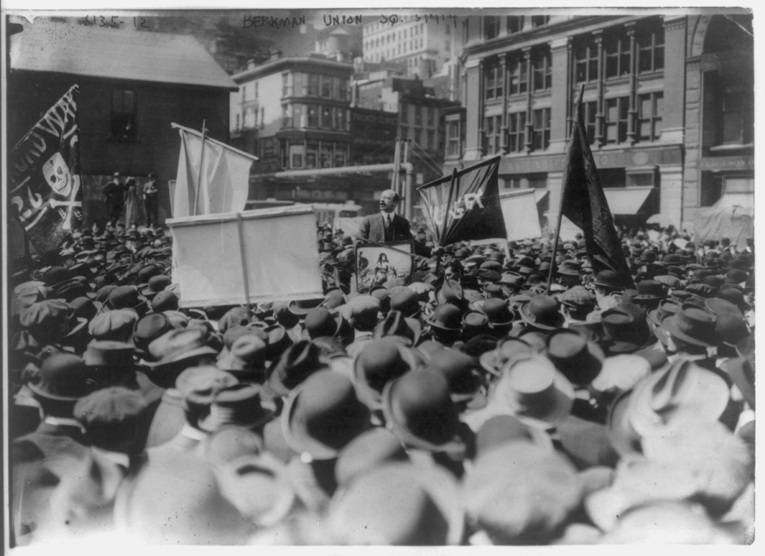 Anarchist Alexander Berkman speaking in Union Square, NYC May 1, 1914